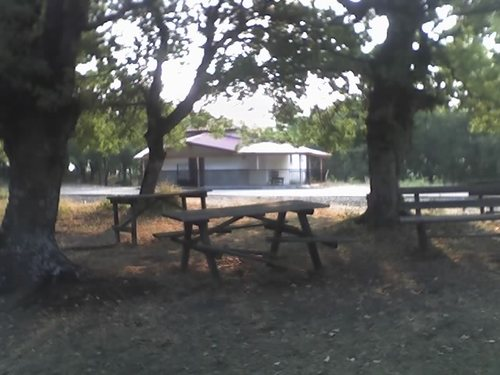 Agia Triada church, Mavronoros, Grevena, Greece